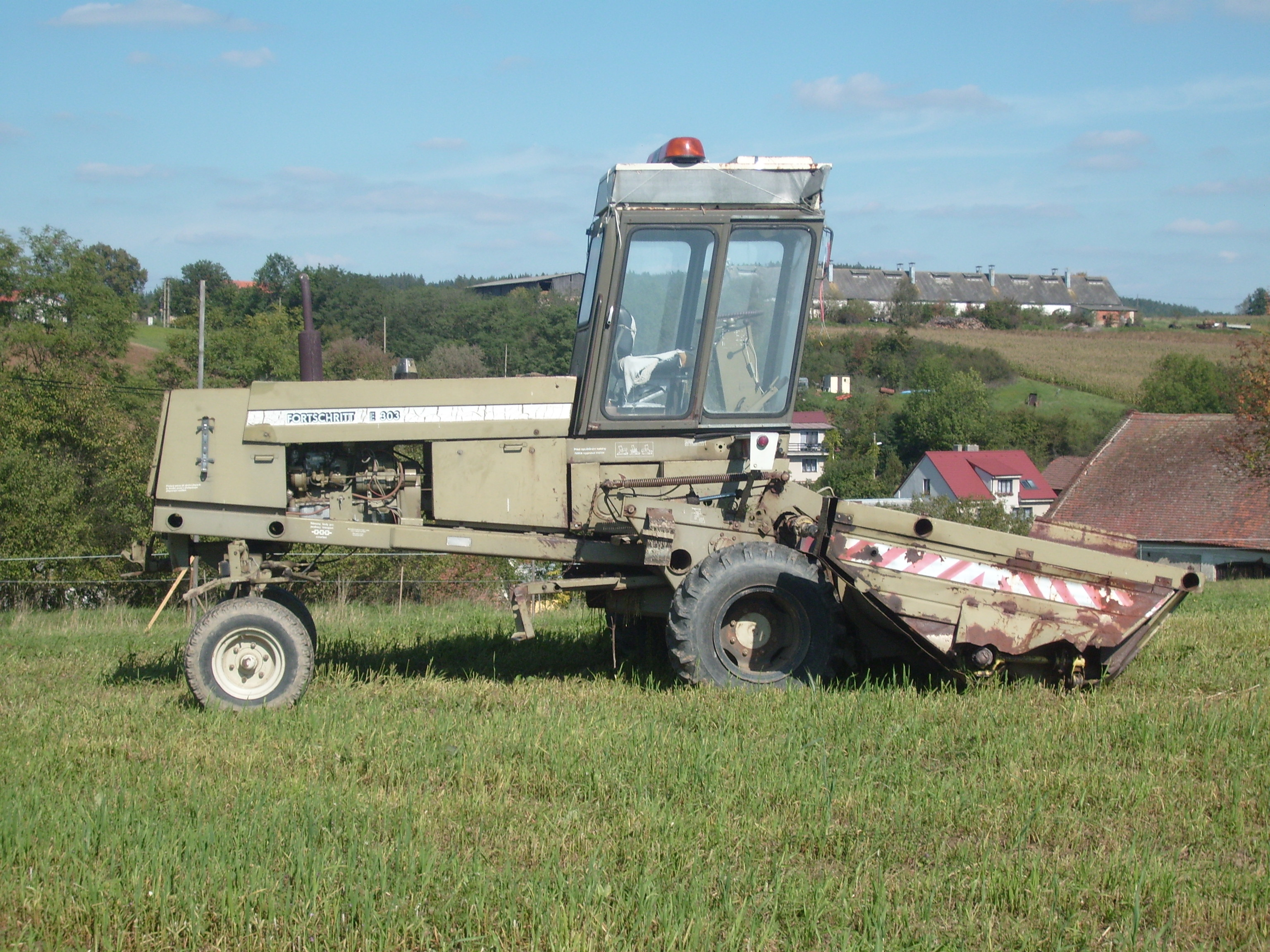 Swather/Windrower Fortschritt E303.